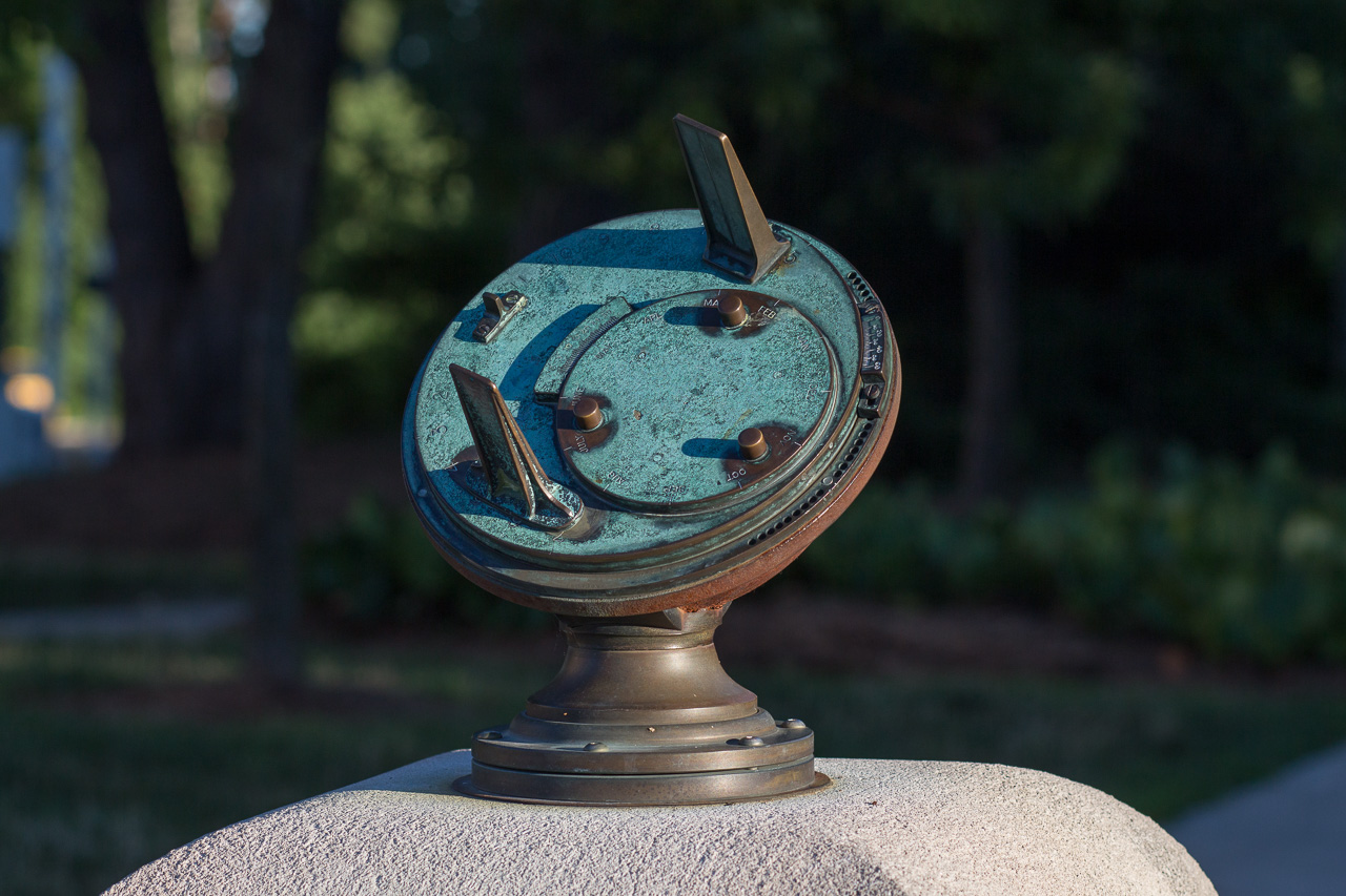 This is the Gibbs Heliochronometer that resides in front of the Hume Cronyn Memorial Observatory on the campus of The University of Western Ontario in London, Ontario, Canada.